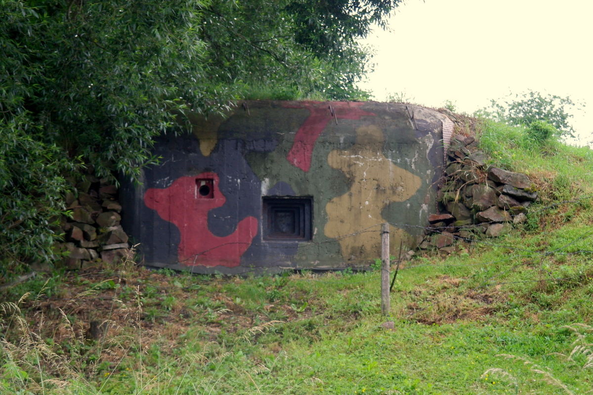 Czechoslovak light pillbox Model 37, Pražská str., Beroun, Beroun District. Part of the 1938 prewar defense Prague line. The D-6/51/E light pillbox is located in the slope above the road in Beroun´s part Závodí.